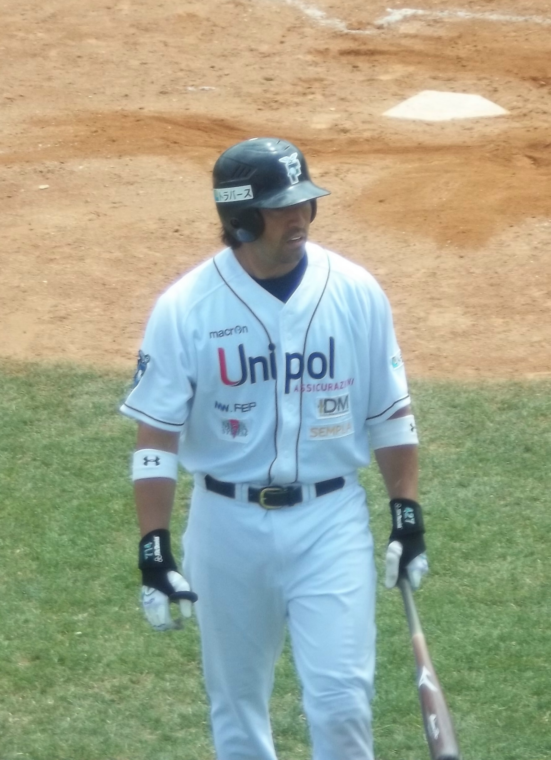 Takahiko G.G. Sato of Fortitudo Baseball Bologna during the game vs Draci Brno at Serravalle Baseball Stadium, San Marino